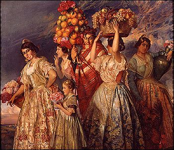 Floreal